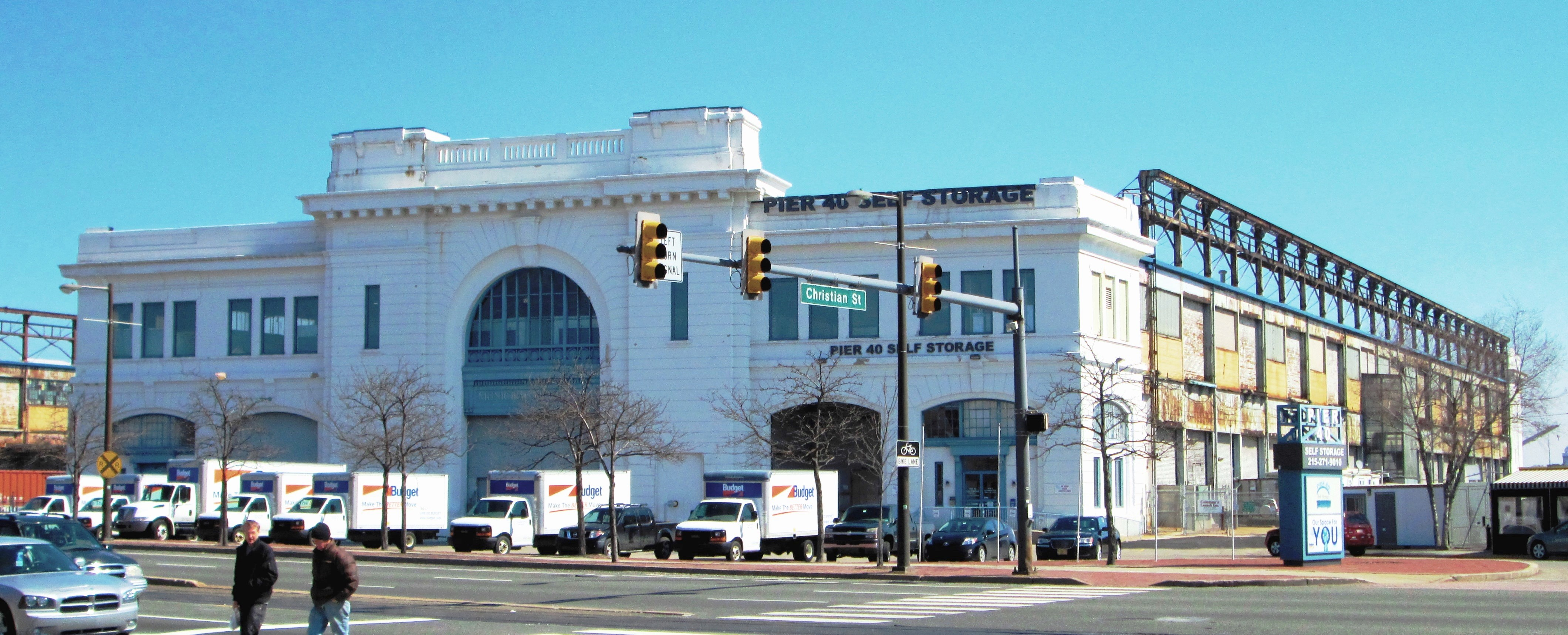 Pier 40 on the Delaware River, located on South Christopher Columbus Boulevard between Christian and Queen Streets on the Southwark neighborhood of Philadelphia, Pennsylvania is owned by the Philadelphia Regional Port Authority and operated by Penn Warehousing & Distribution. It has rail connections to CSX and Norfolk Southern. (Source: "Piers 38 & 40")